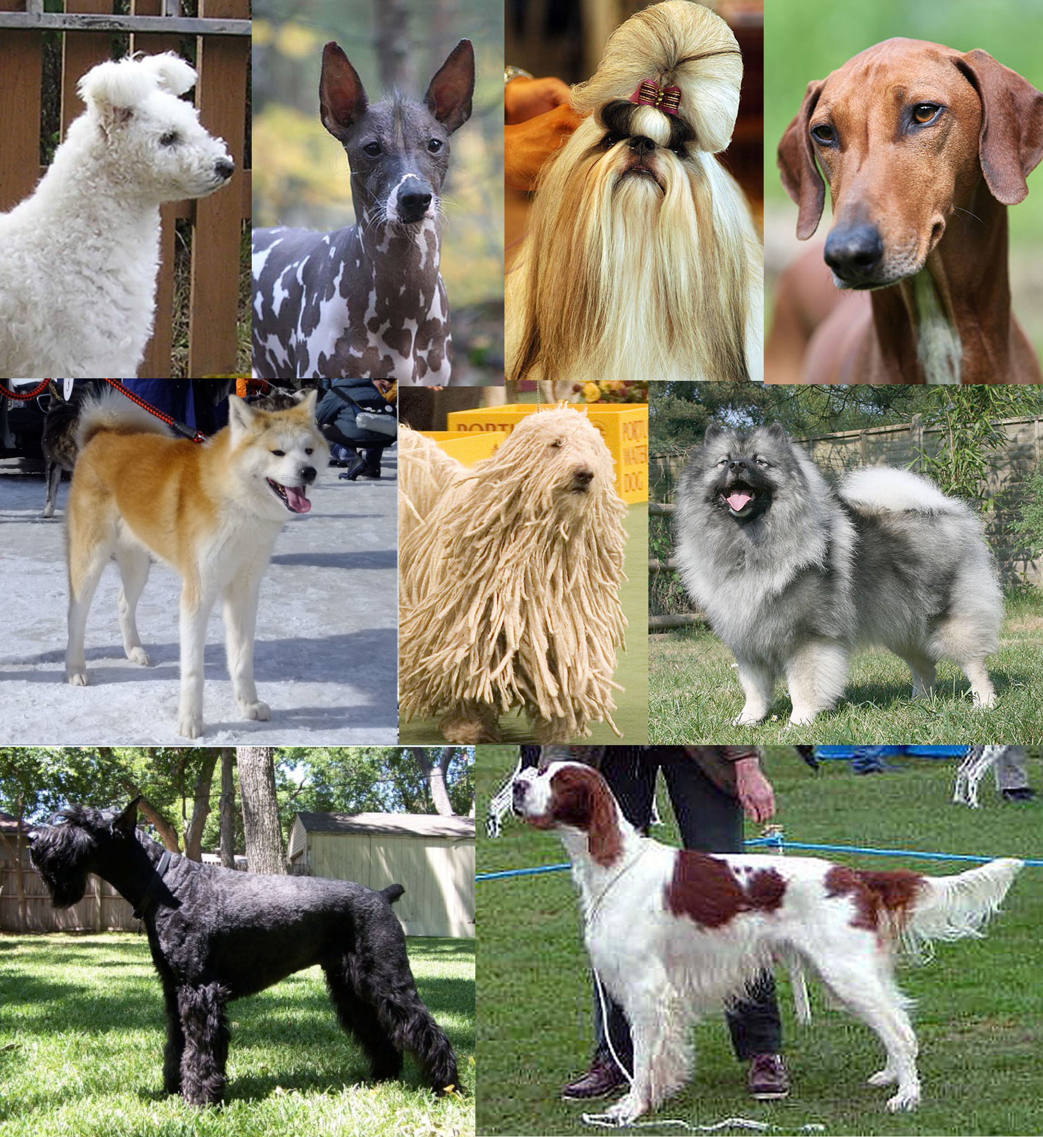 Collage of pictures from Category:Dog breeds by name